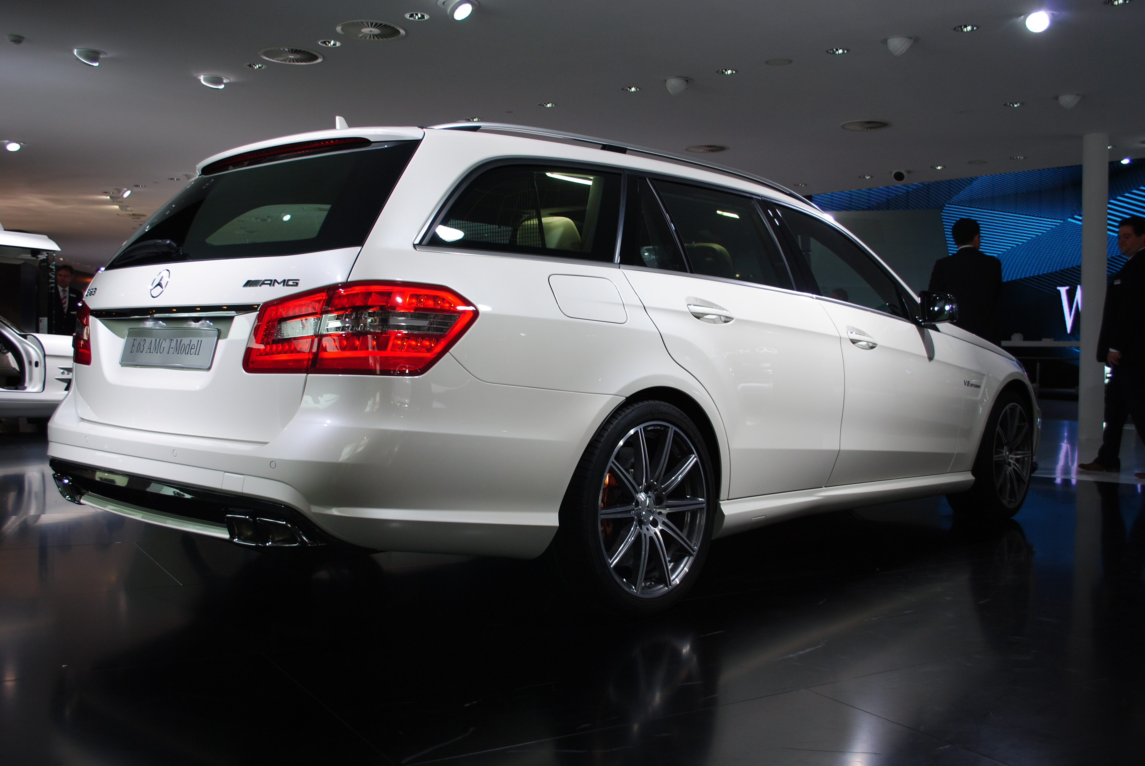 Mercedes-Benz E 63 AMG (5.5 l Biturbo) T-Model